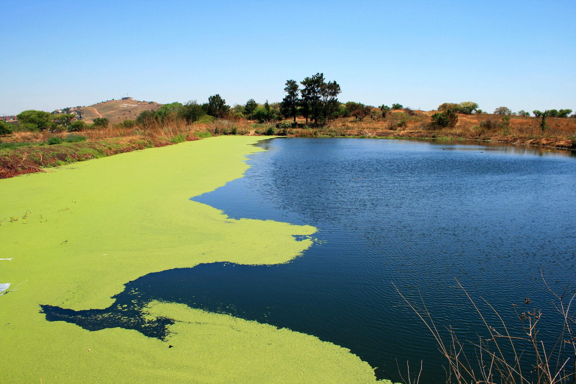 Dam with algae growth